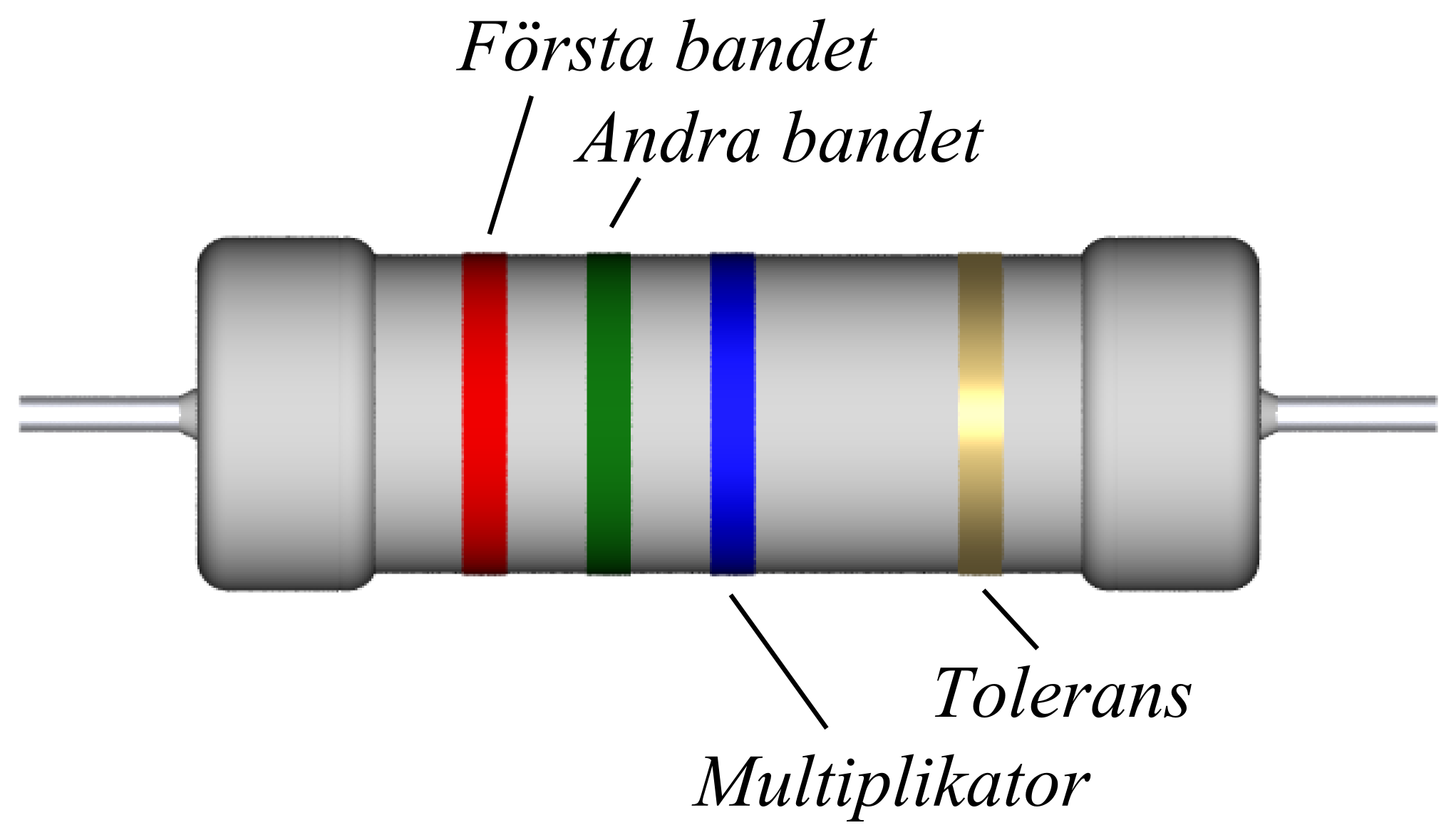 Example of resistor colour coding